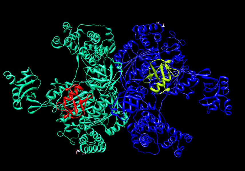 Ubiquitin-activating enzyme bound to the ubiquitin substrate